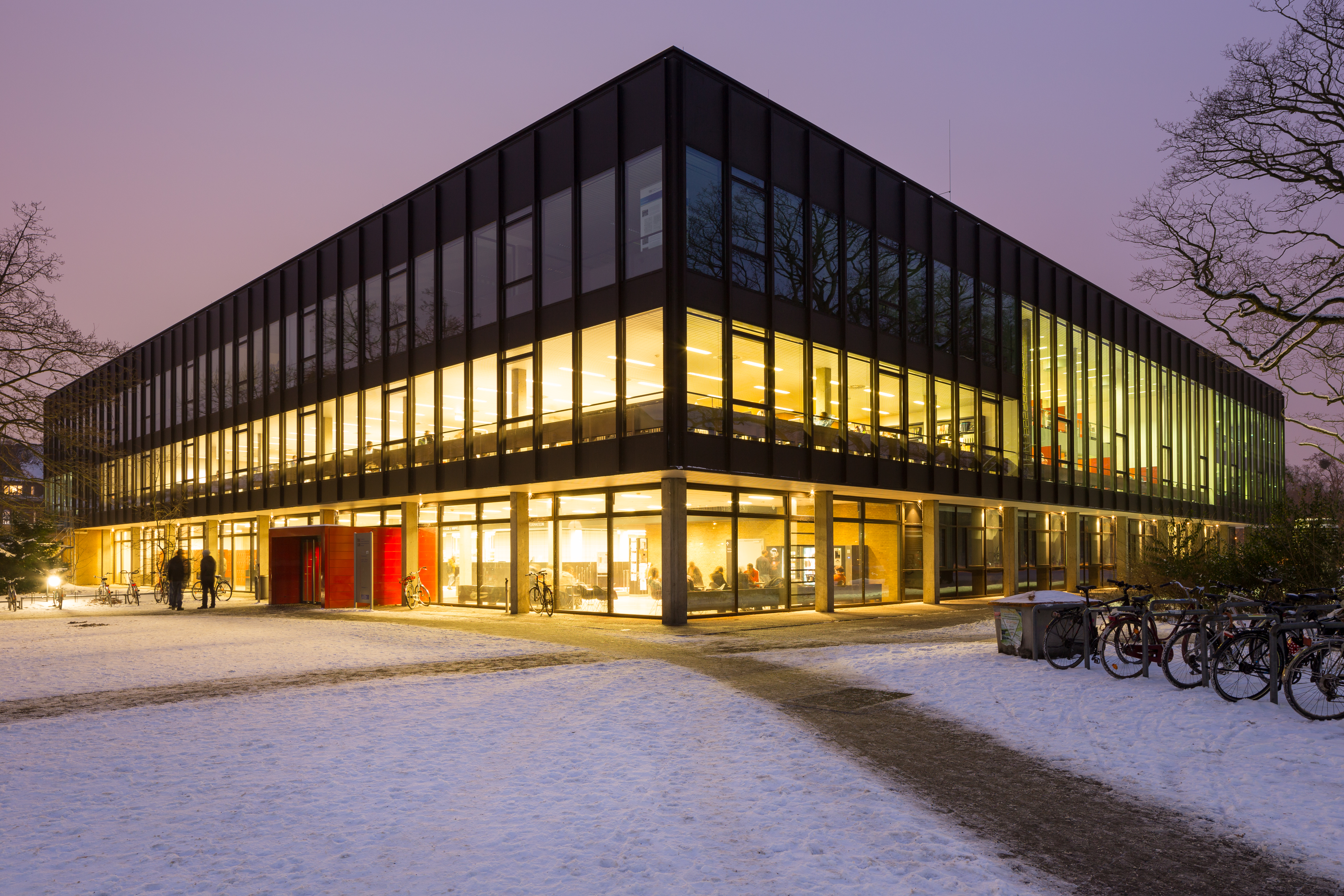 Library building of German National Library of Science and Technology / University Library Hannover (TIB / UB) located at Am Welfengarten no. 1b in Nordstadt quarter of Hannover, Germany. View of the facade where the main entrance is located (in red).